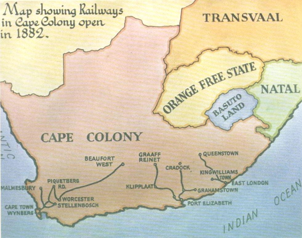 Early map of the Cape Colony's Railway system as planned by Premier Molteno and completed in 1882. From Cape Colony Archives in Cape Town